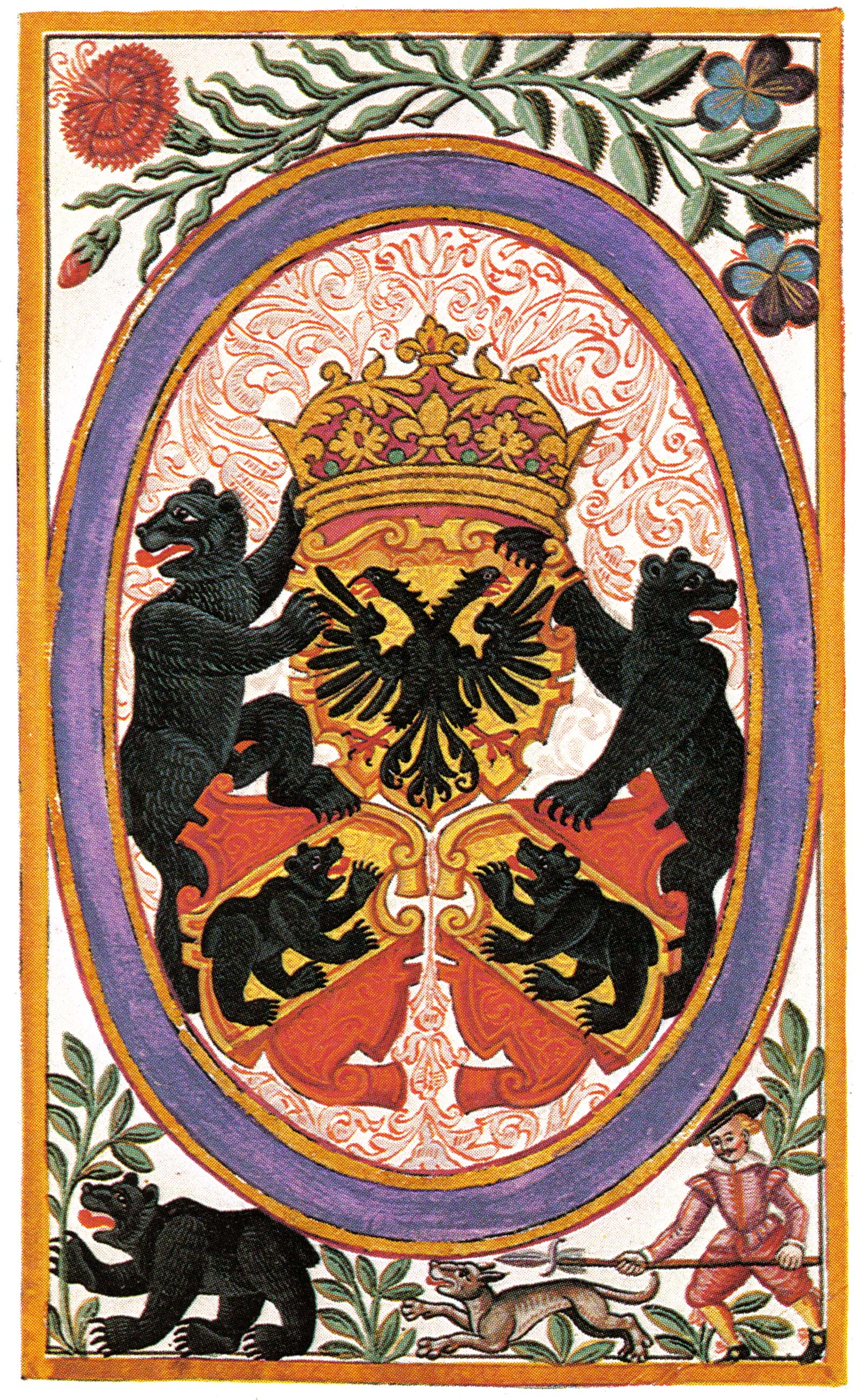 Coat of Arms of Berne, from the Berner Chronik of Michael Stettler, 1620. At this time, Berne still considered itself part of the Holy Roman Empire, thus adding the Imperial Eagle to its own coat of arms. The combination was called the Bern-Rych.